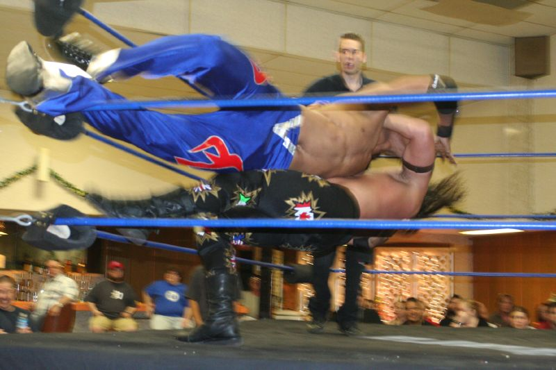 Professional wrestler Johnny Gargano performing a facebuster on Marshe Rockett at a Chikara event